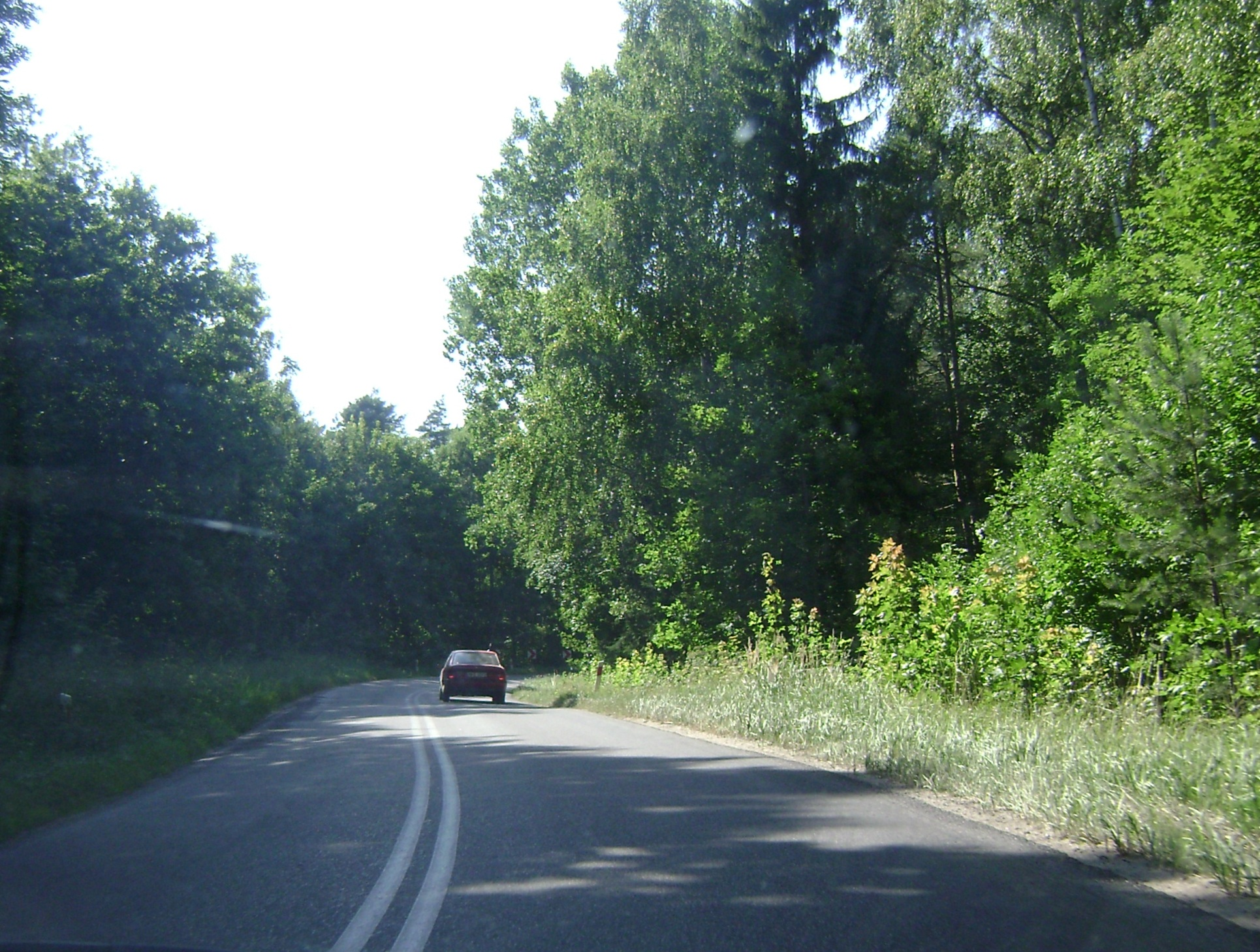 Poland. Gmina Kętrzyn. Voivodeship road 592